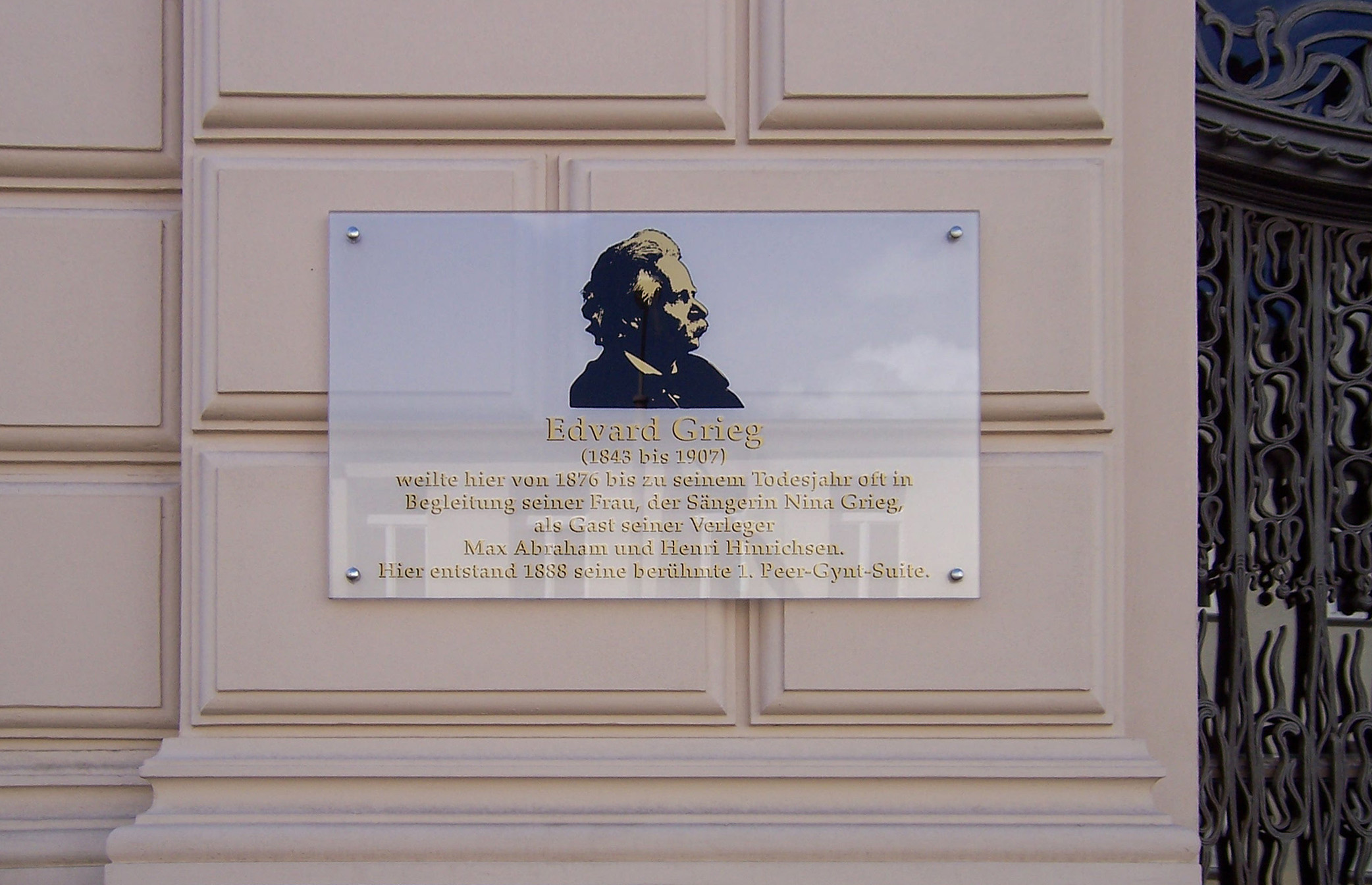 Grieg Memorial Plaque on the wall of the Edition Peters building, Leipzig